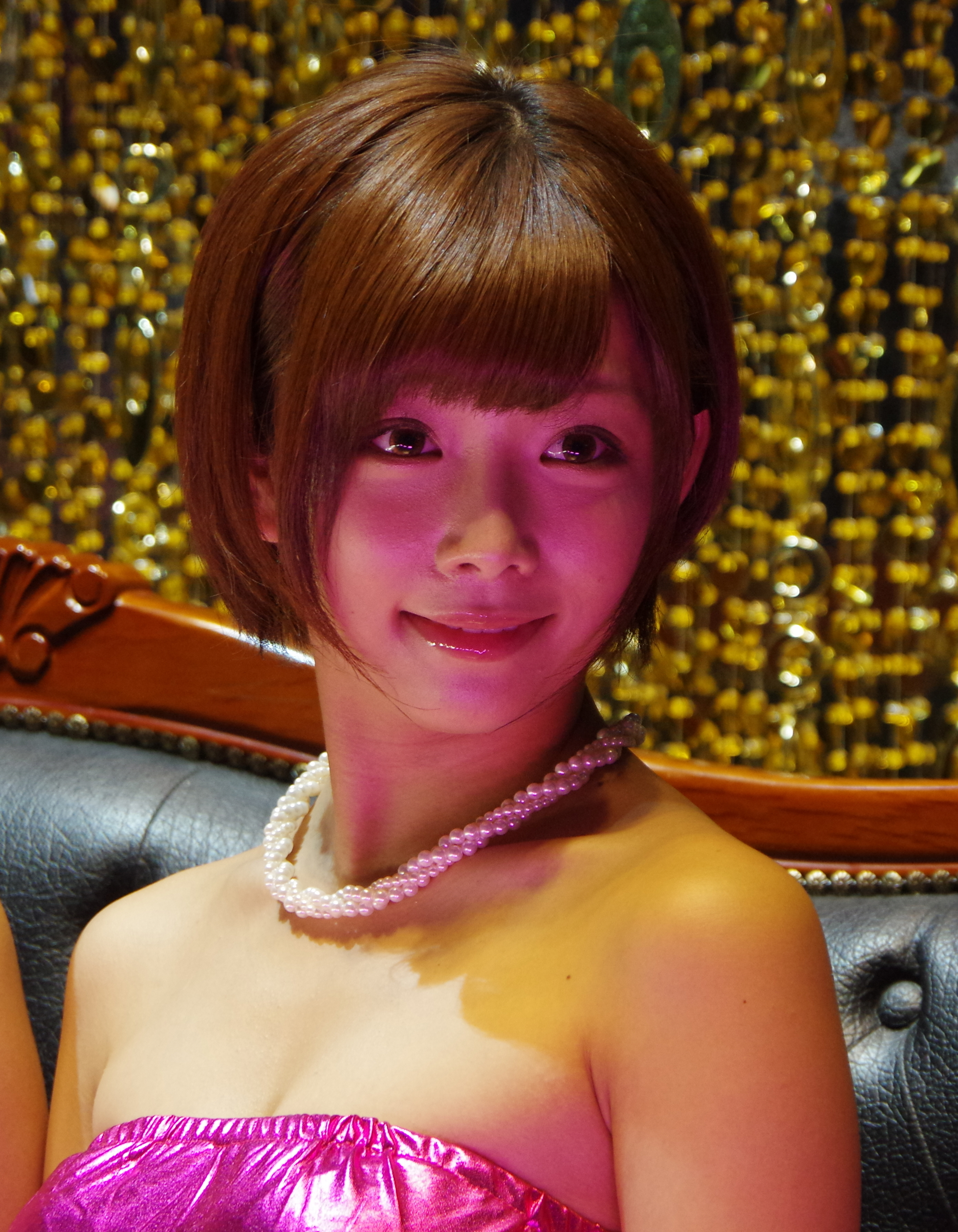 Mana Sakura at Tokyo Game Show 2014